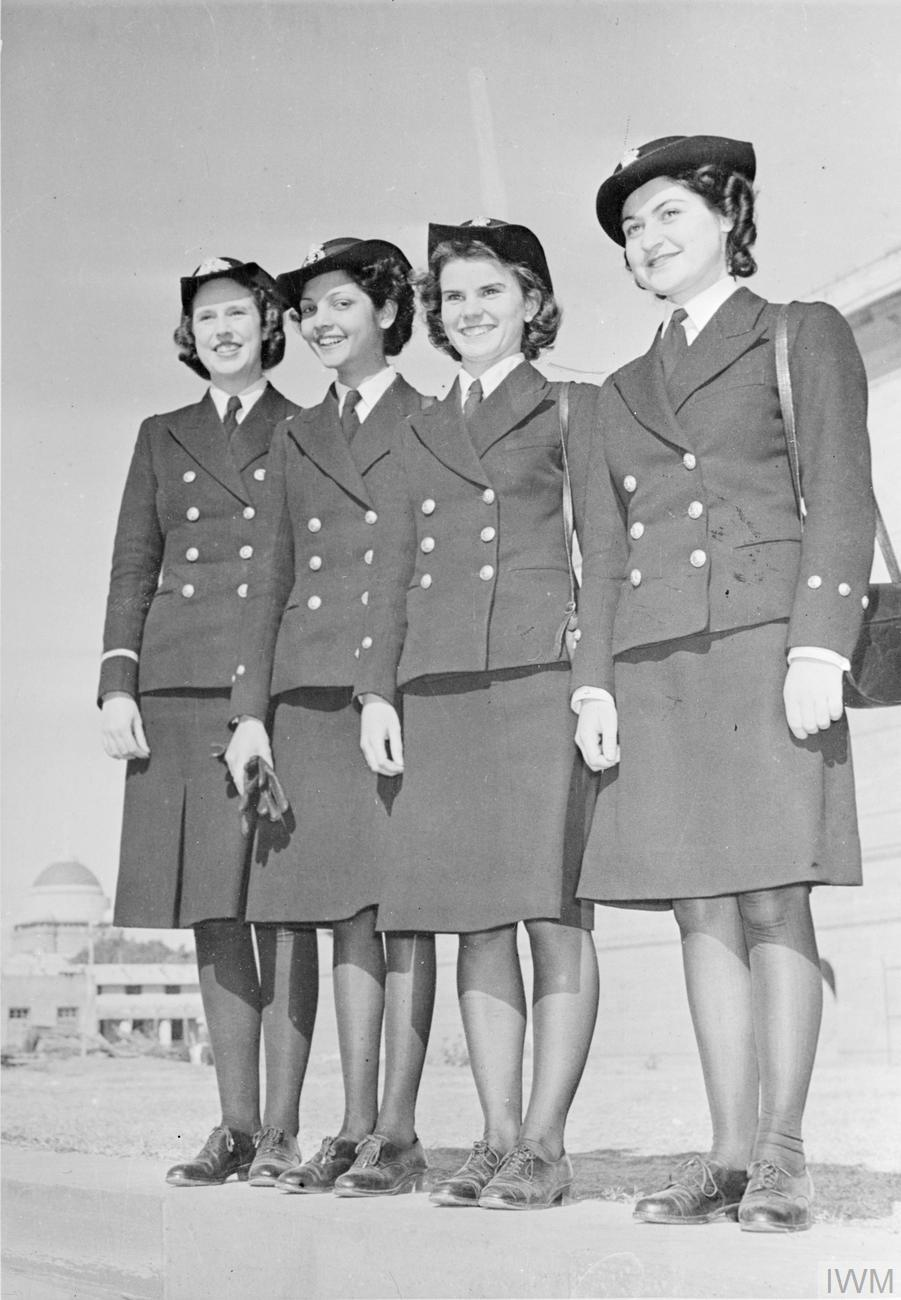 Commonwealth Forces in India Women of the newly-formed Naval Wing of the Women's Auxiliary Corps (India), 1945. Left to right are: Third Officer Daphne Jones; Chief Petty Officer Moina Imam; Chief Petty Officer Joan Campbell; Chief Petty Officer Betty Khan, all of the WAC (India).